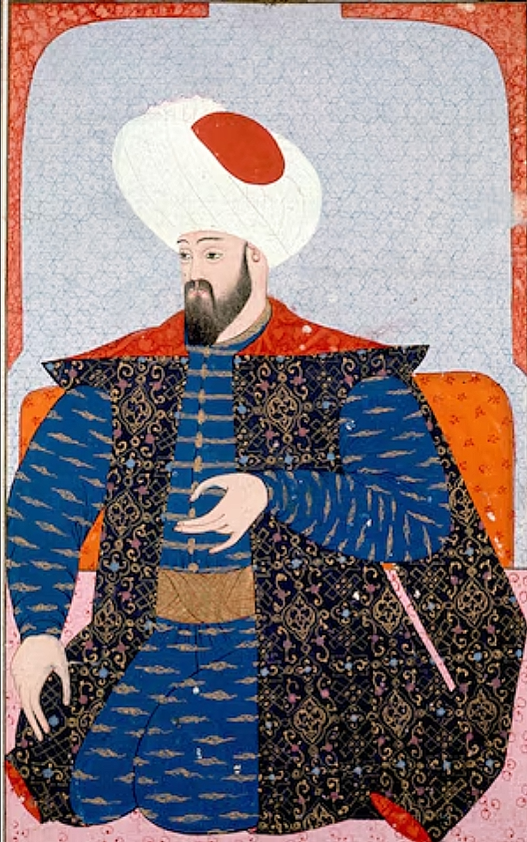 Osman I, the founder of the Ottoman Empire. Ottoman miniature painting. Located at Topkapı Sarayı Müzesi, Istanbul (Inv. H 1563, Fol. 37a).